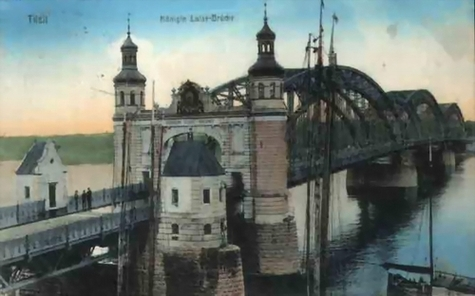 Queen Louise bridge in Tilsit